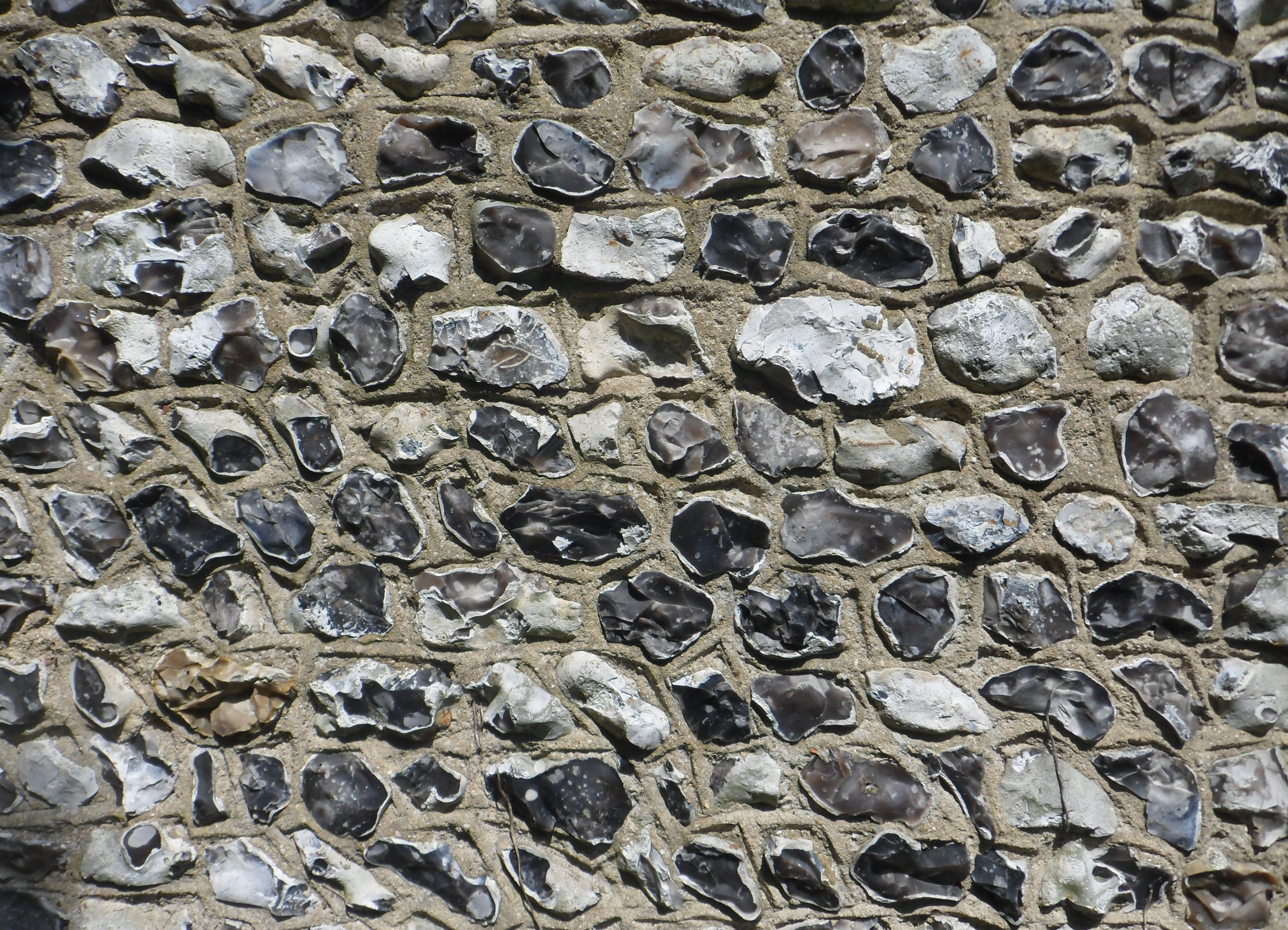 Part of a flint wall of the chancel of St Martin's Church, Ockham Road South, East Horsley, of Guildford, Surrey, England